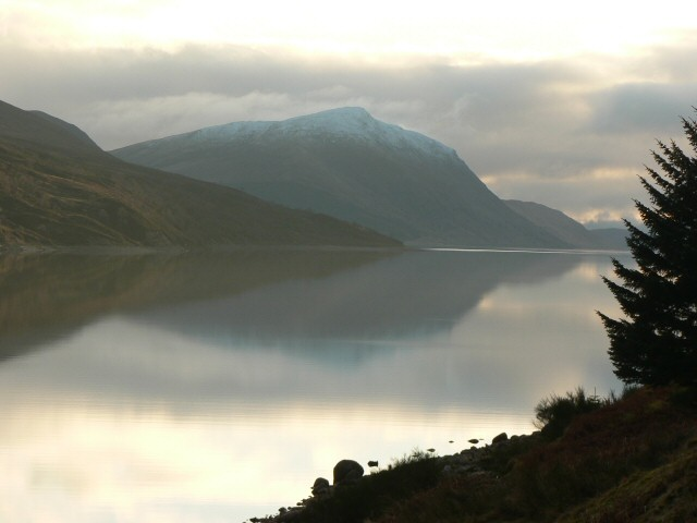 Loch Ericht. Looking south down the loch to Stob an Aonaich Mhoir.